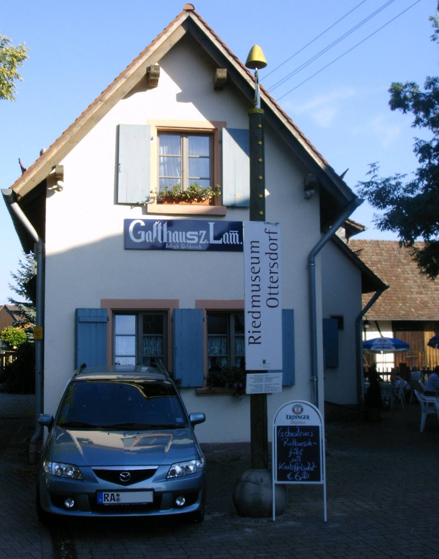 Restaurant "Lamm" and entrance of "Riedmuseum" in Ottersdorf, part of Rastatt, Germany